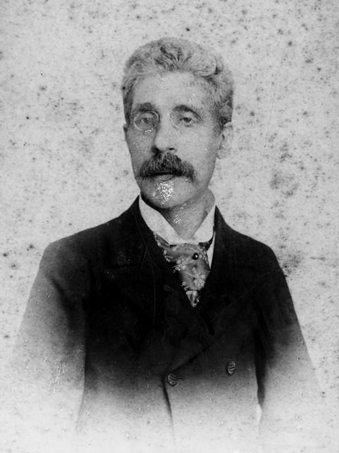 Francisco Marques de Sousa Viterbo (1845-1910), a Portuguese writer and historian.